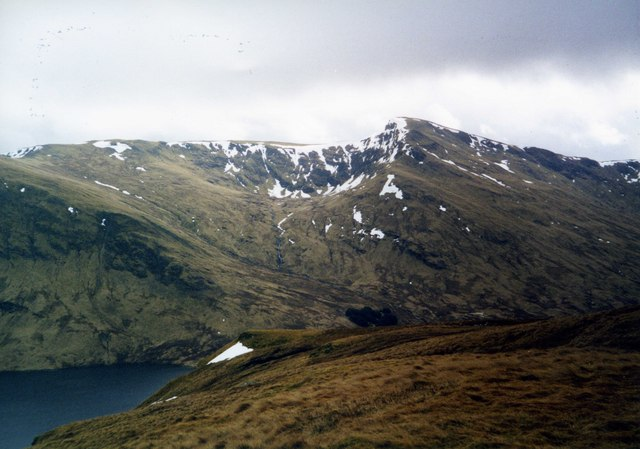 Stuchd an Lochain Taken from Meall Buidhie. Loch an Daimh in lower left corner.